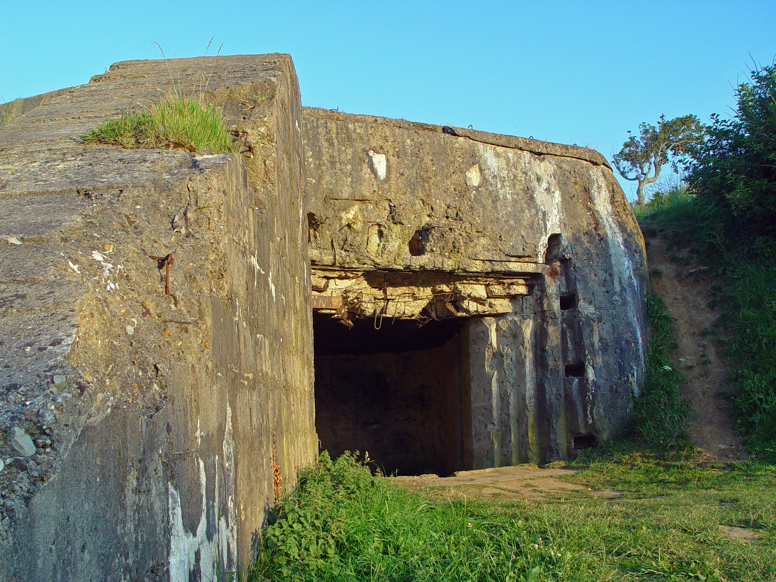 German Casemate at Omaha Beach (Normandy)